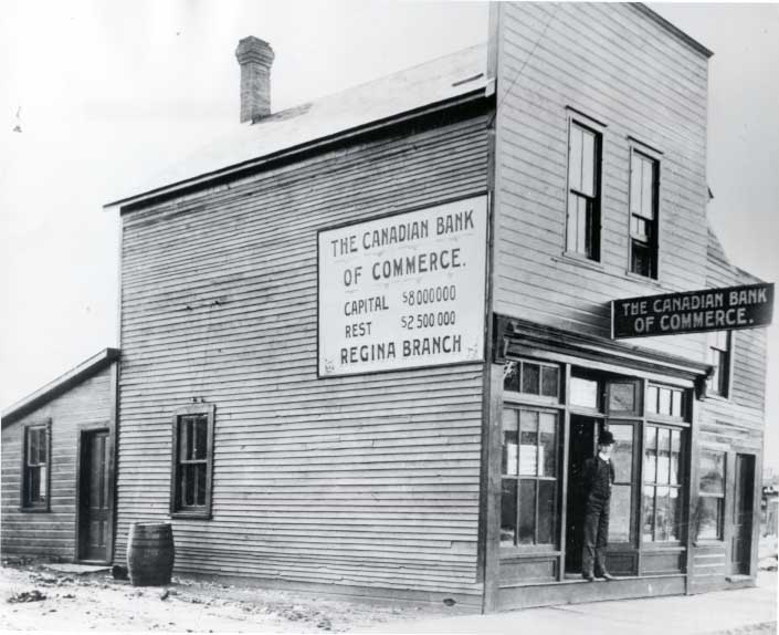 The first branch of the Canadian Bank of Commerce in Regina, Saskatchewan, Canada.